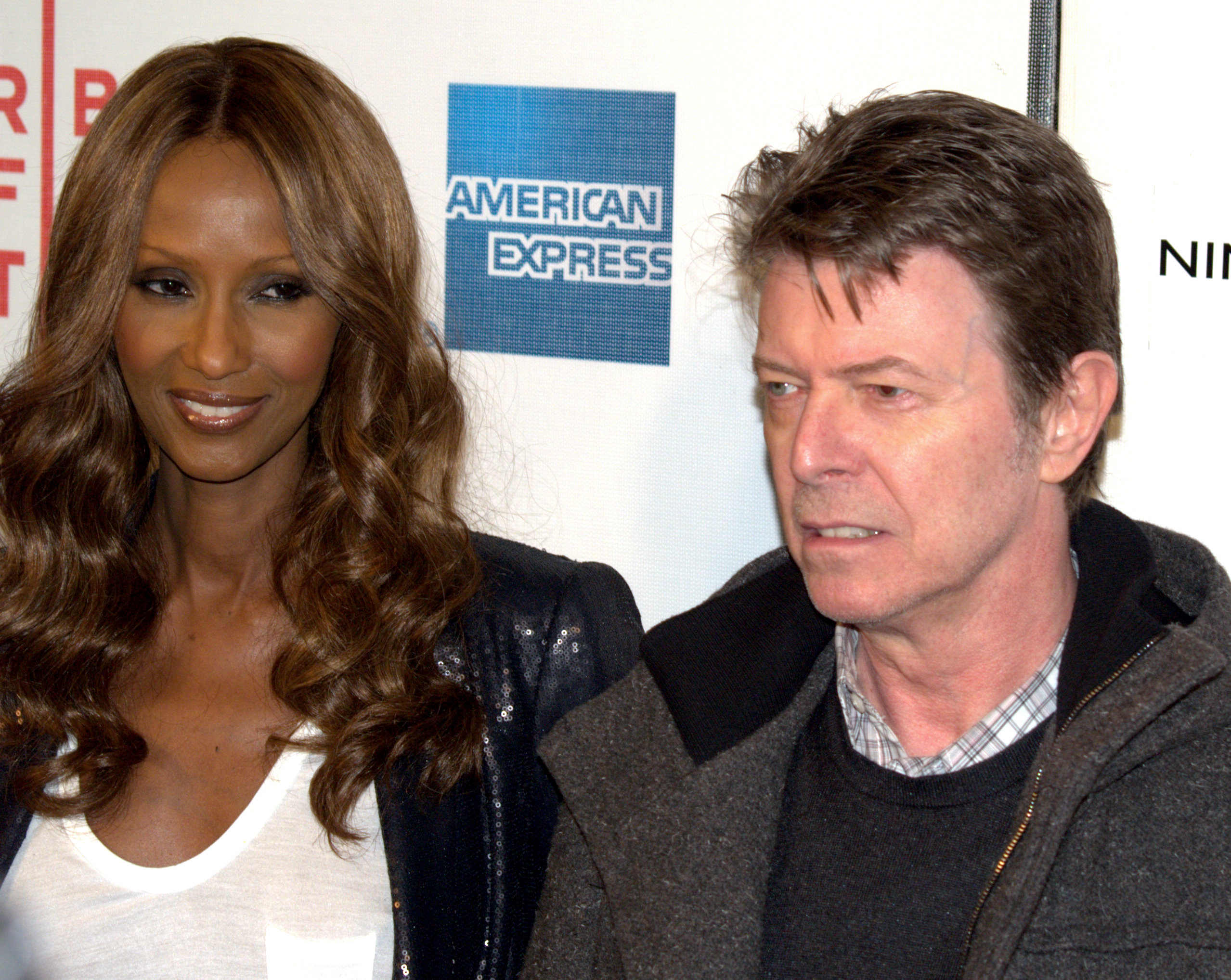 Iman and David Bowie at the 2009 Tribeca Film Festival premiere of Moon.